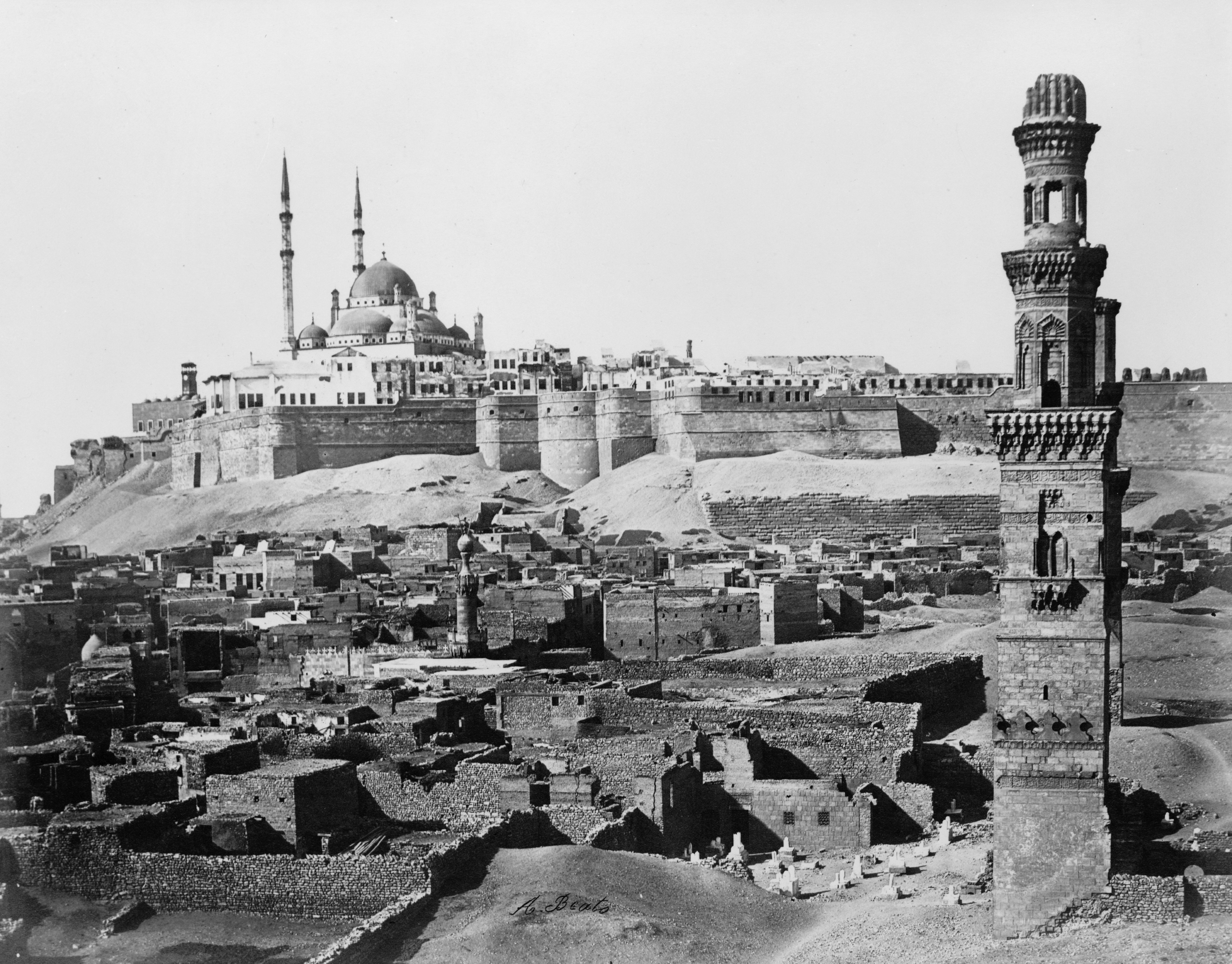 The Citadel and tombs in Cairo, Egypt in the late 1800s.